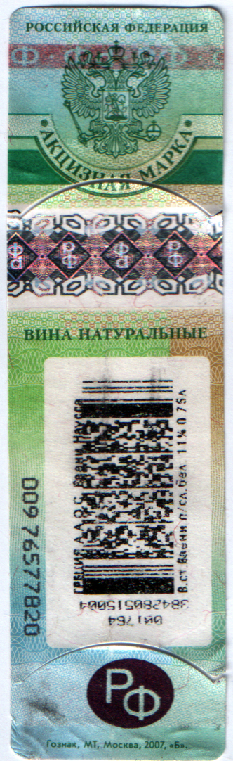 Russia. Excise stamp, 2005